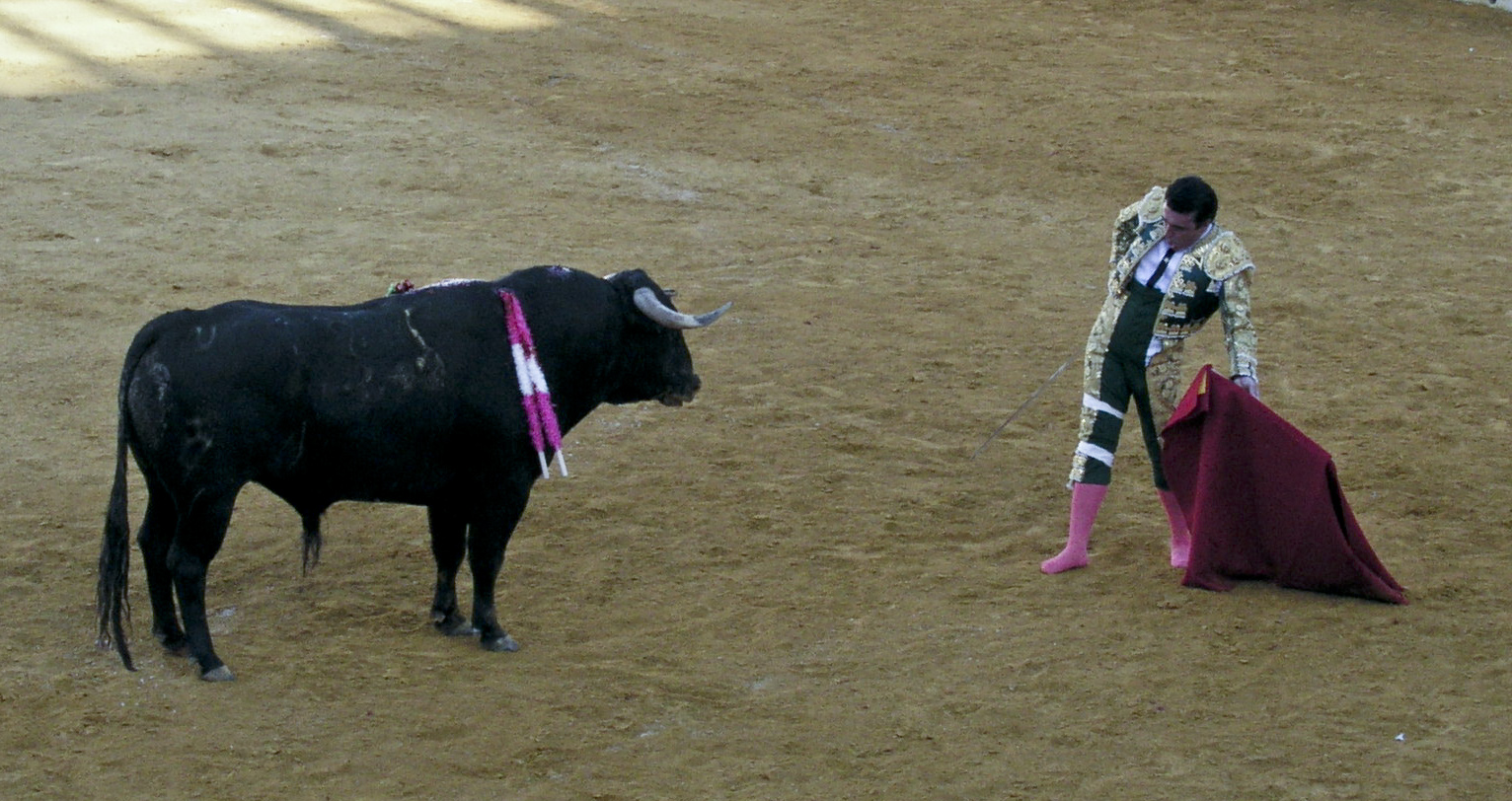 José Ortega Cano fights without shoes, and wounded on right side. Getafe, Spain